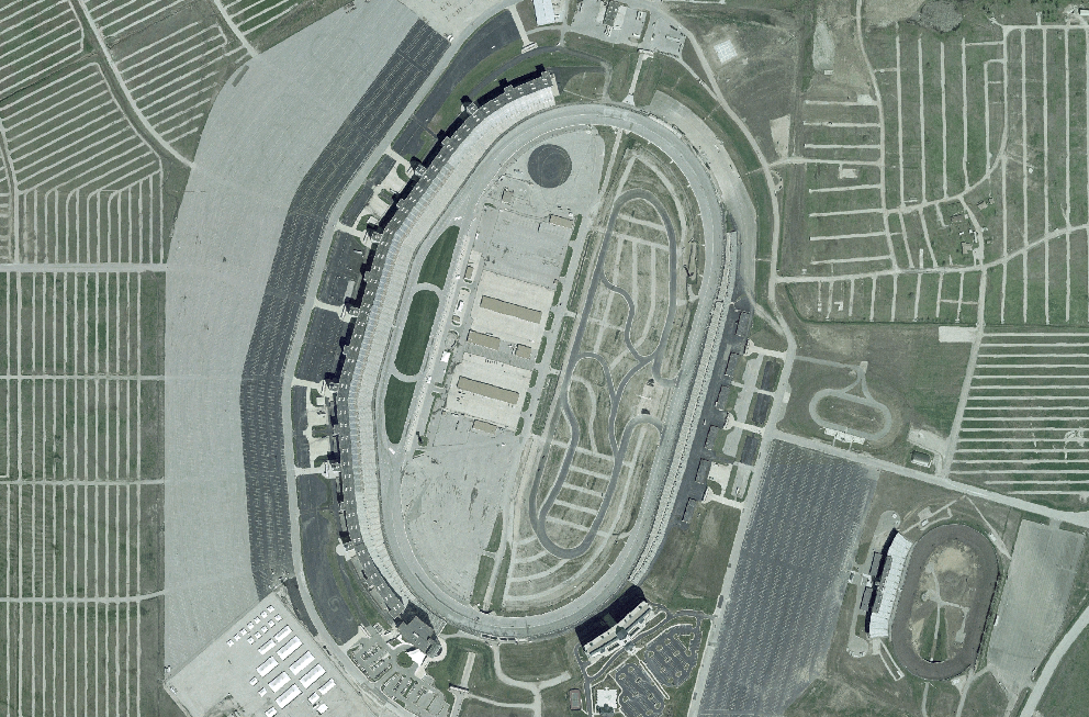 Texas Motor Speedway on NASA World Wind 1.3.5